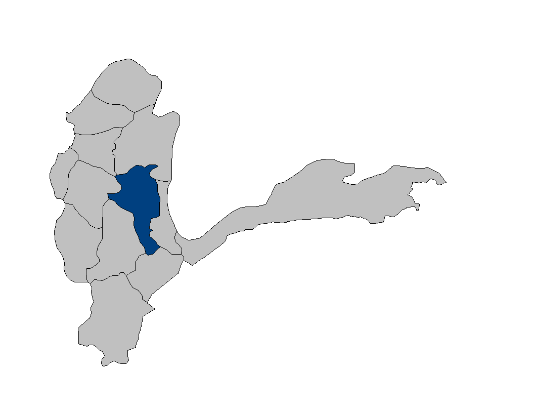 Location map for the Baharak District of Badakhshan Province, Afghanistan. Original map source: Image:Badakhshan districts.png